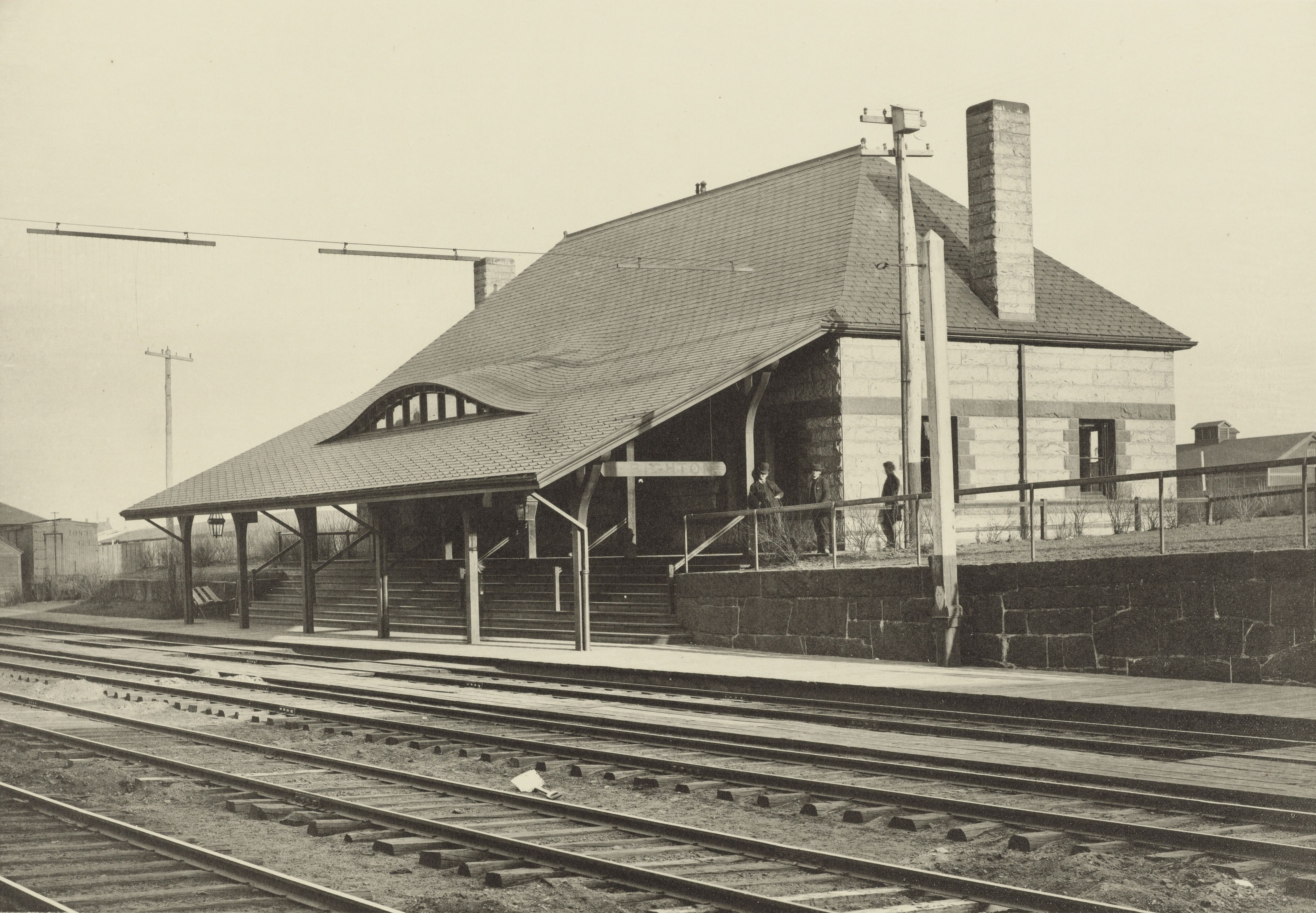 Collotype photograph of the Brighton (Massachusetts) Railroad Station, Boston and Albany Railroad, designed by H. H. Richardson. MS Typ 1070, Box 9, folder 120, Houghton Library, Harvard University